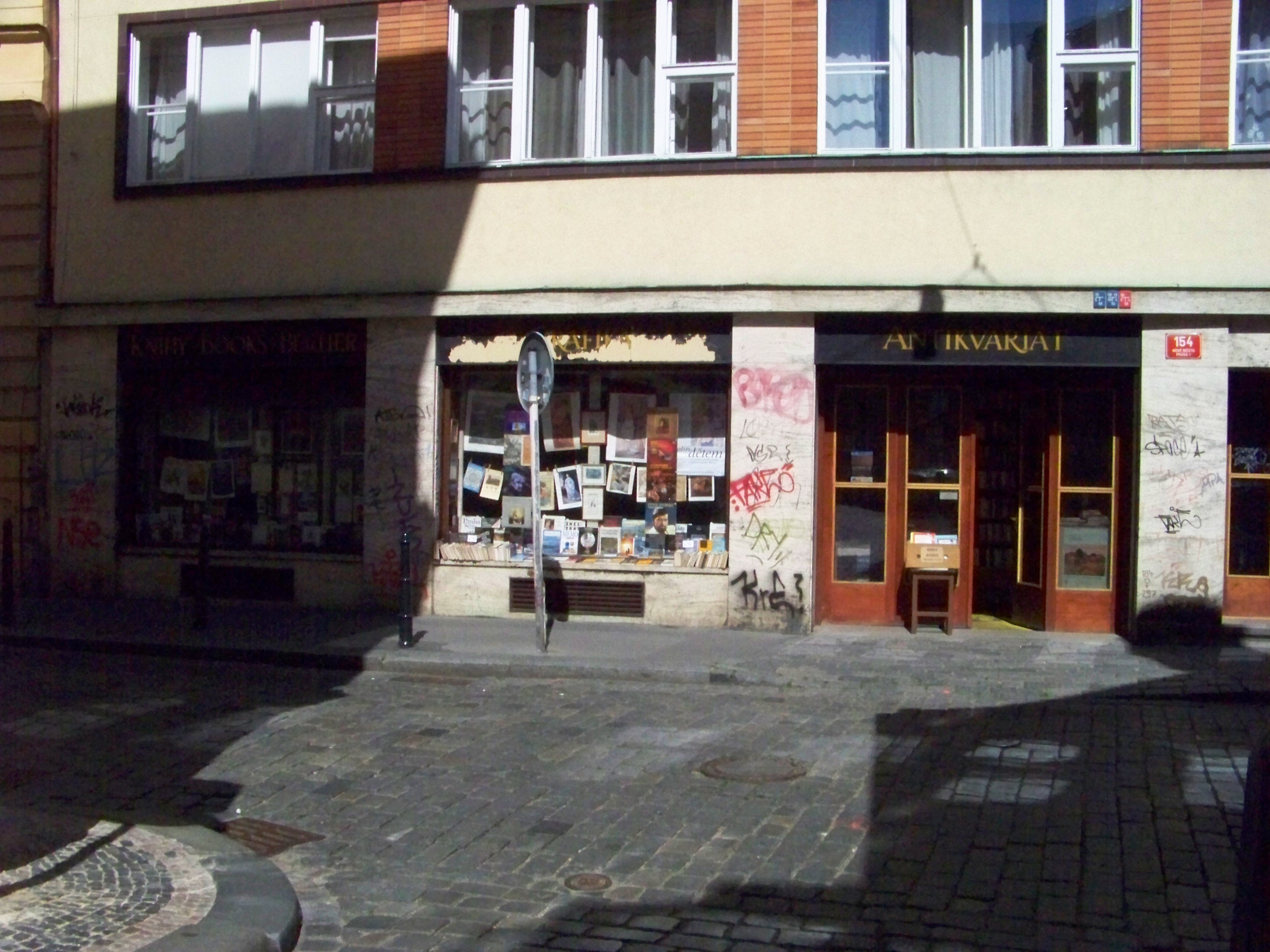 Prague-New Town, the Czech Republic. Opatovická street, a secondhand bookshop.